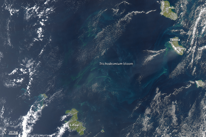 The image, acquired on December 19, 2014, with the Moderate Resolution Imaging Spectroradiometer (MODIS) on NASA’s Aqua satellite, shows a bloom of Trichodesmium erythraeum in the southwest Pacific Ocean between New Caledonia and Vanuatu.